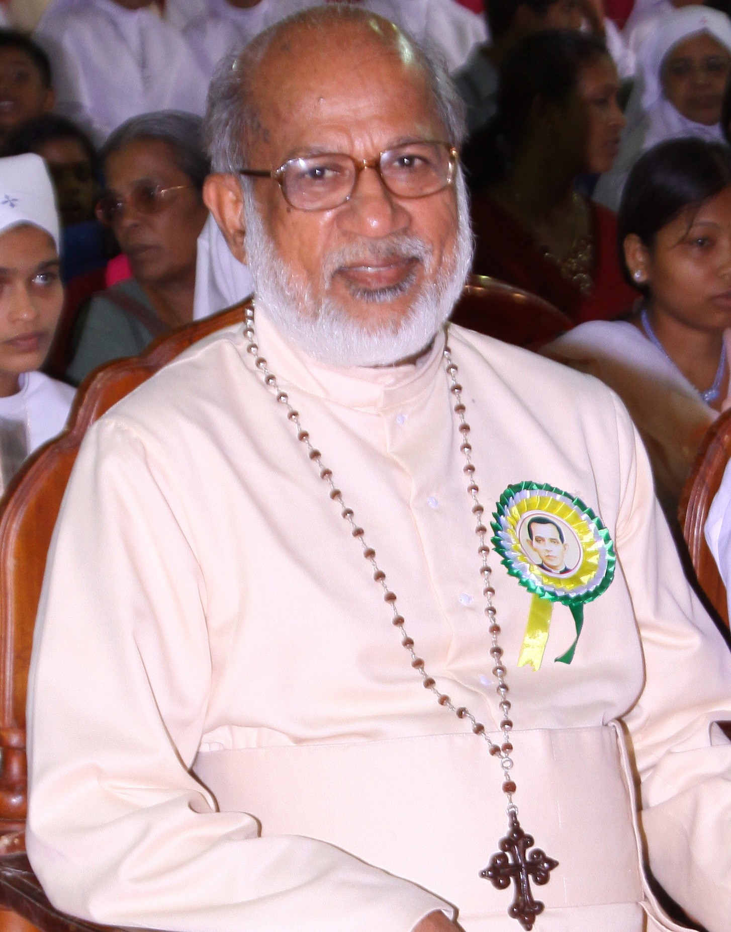 Major Archbishop of the Syro-Malabar Catholic Church Mar George Alencherry